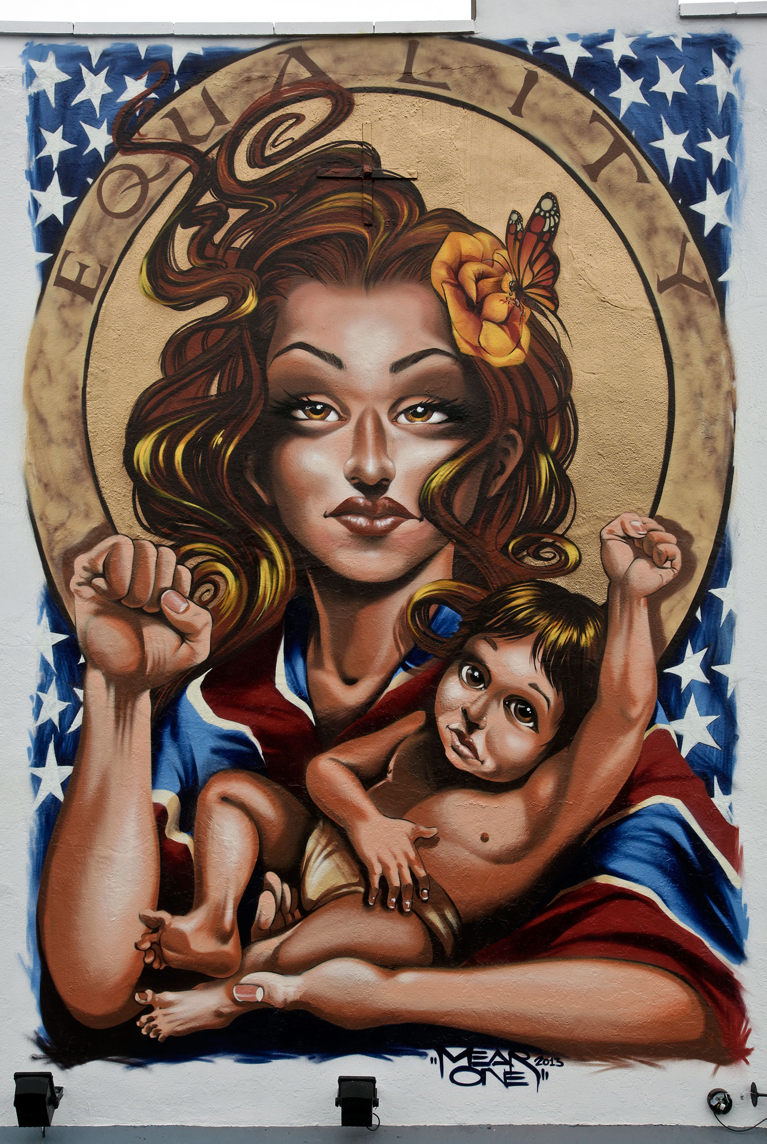 Part of Dulwich Outdoor Gallery where international street artists interpret paintings in Dulwich Picture Gallery's permanent collection on the streets around Dulwich.